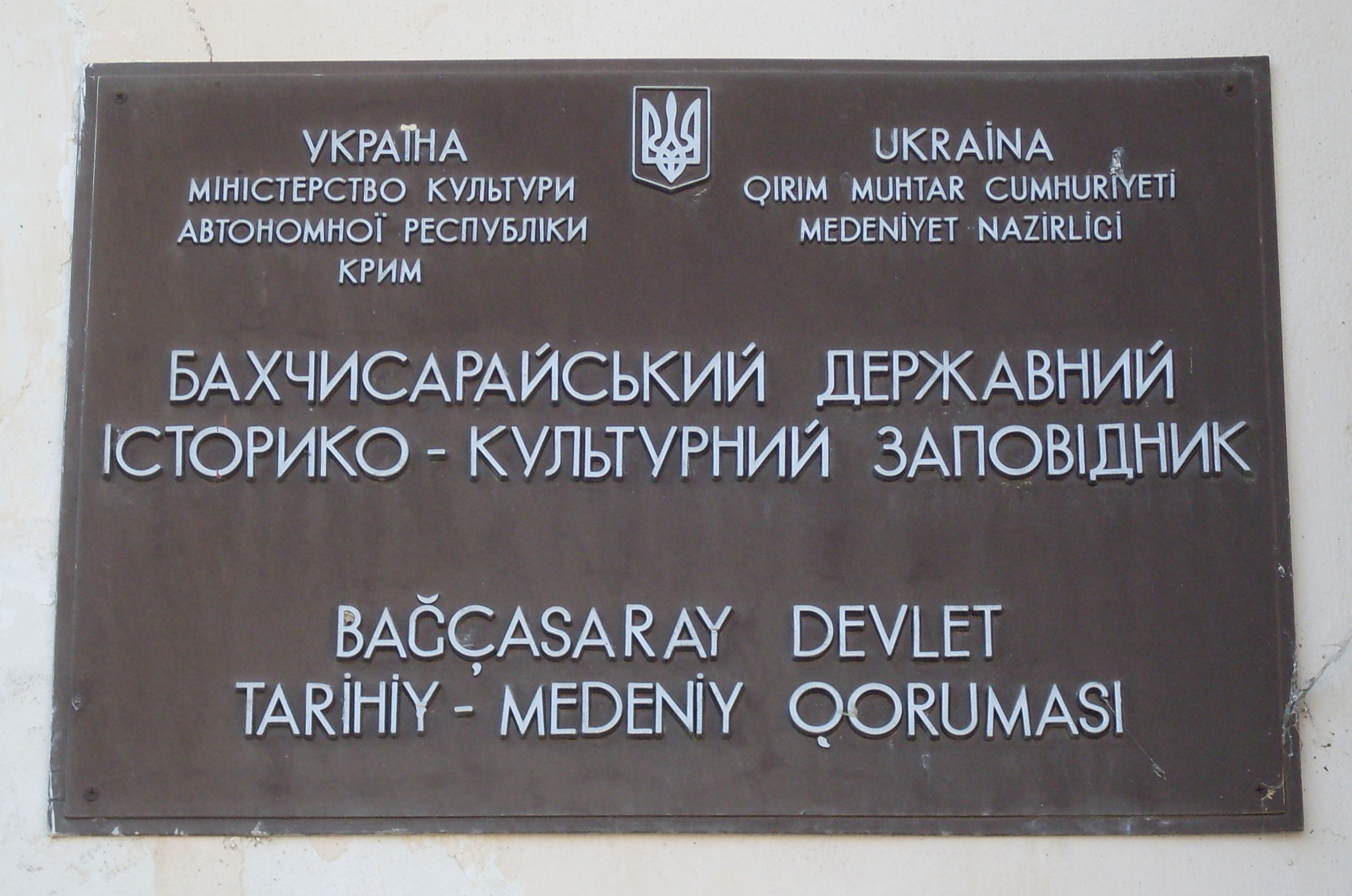 Bilingual Ukrainian-Crimean plate at the entrance to the Khan Palace in Bakhchysaray.